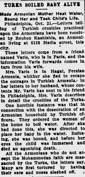 Press coverage of the Armenian Genocide